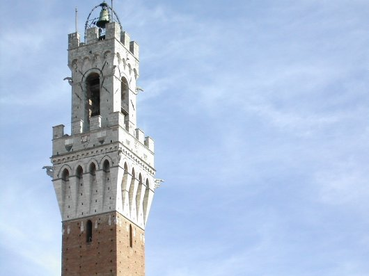 Torre del Mangia Siena - Mangia Tower in Siena